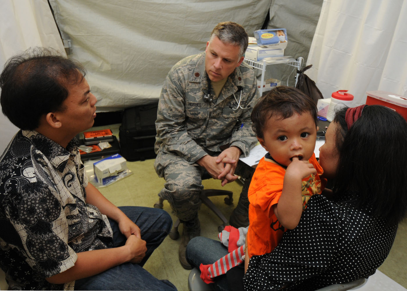 PADANG, Indonesia (Oct. 10, 2009) Maj. Scott Hughes gathers medical information from a patient with the help of Hasbi, a local interpreter. Major Hughes is a doctor assigned to the 36th Medical Group at Anderson Air Force Base, Guam and is deployed here with an Air Force humanitarian assistance rapid response team (HARRT) to provide medical assistance to those affected by the recent earthquakes. (U.S. Air Force photo by Staff Sgt. Veronica Pierce/Released)